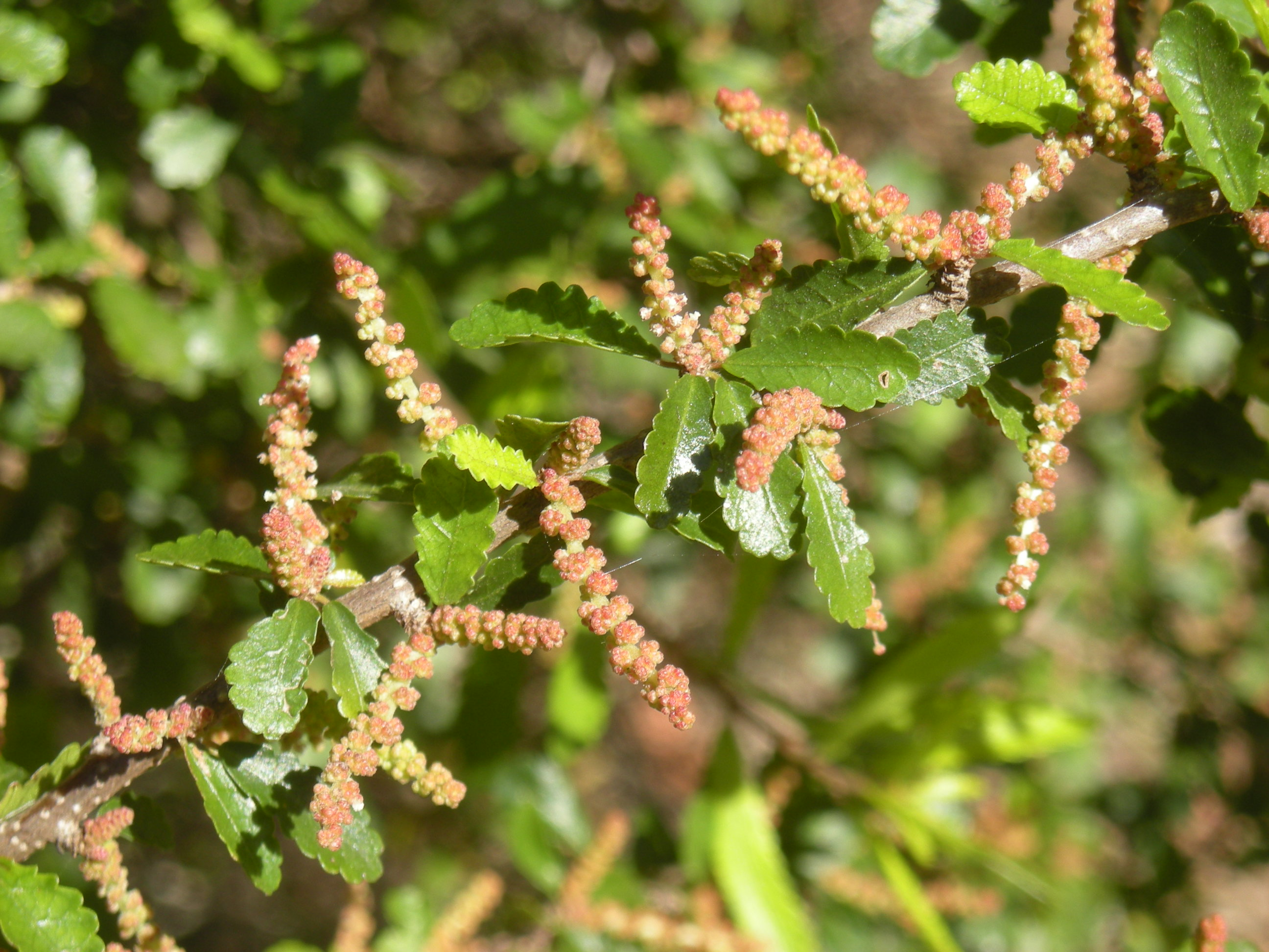 Acalypha eremorum flowers and foliage